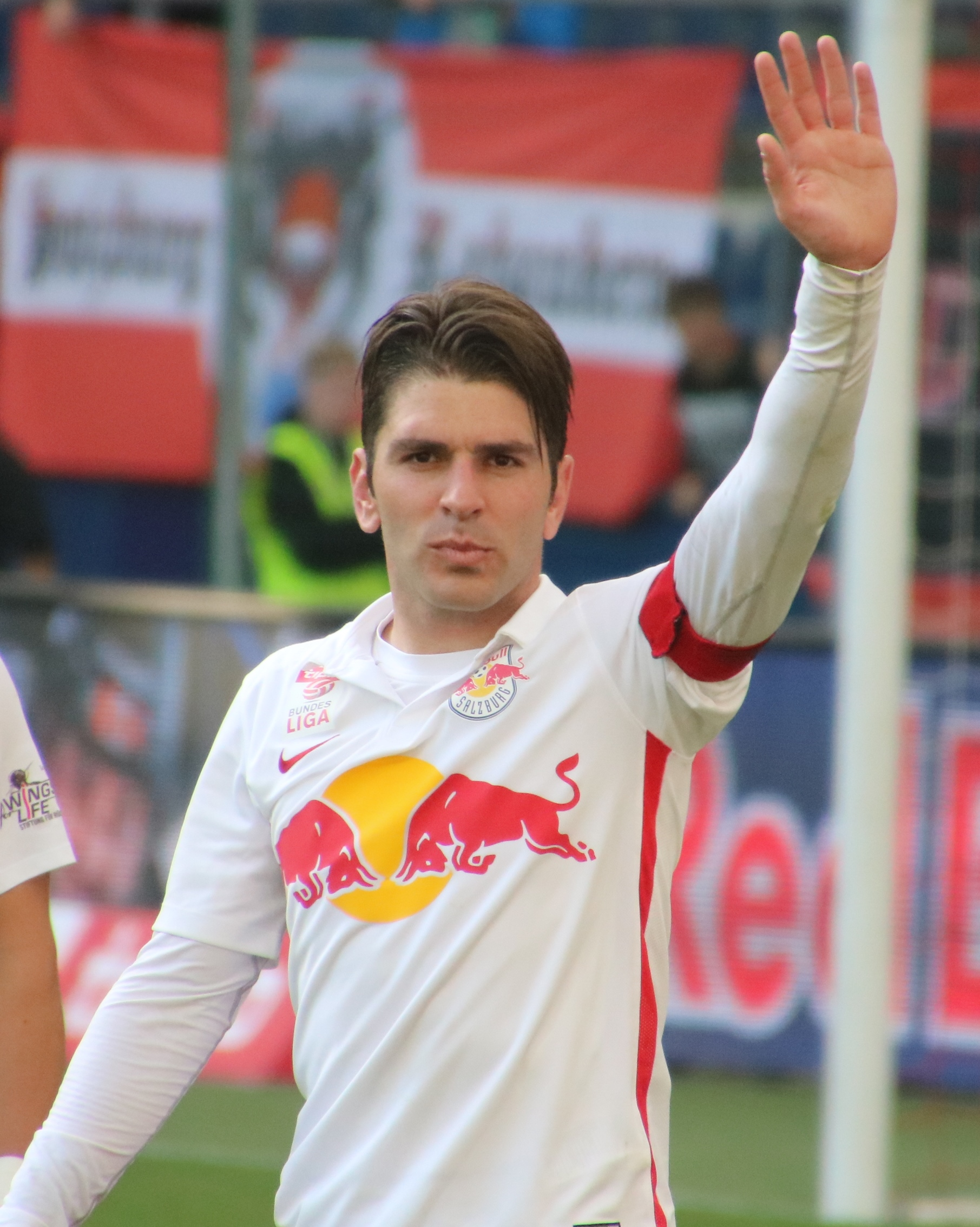 league match Austrian Bundesliga